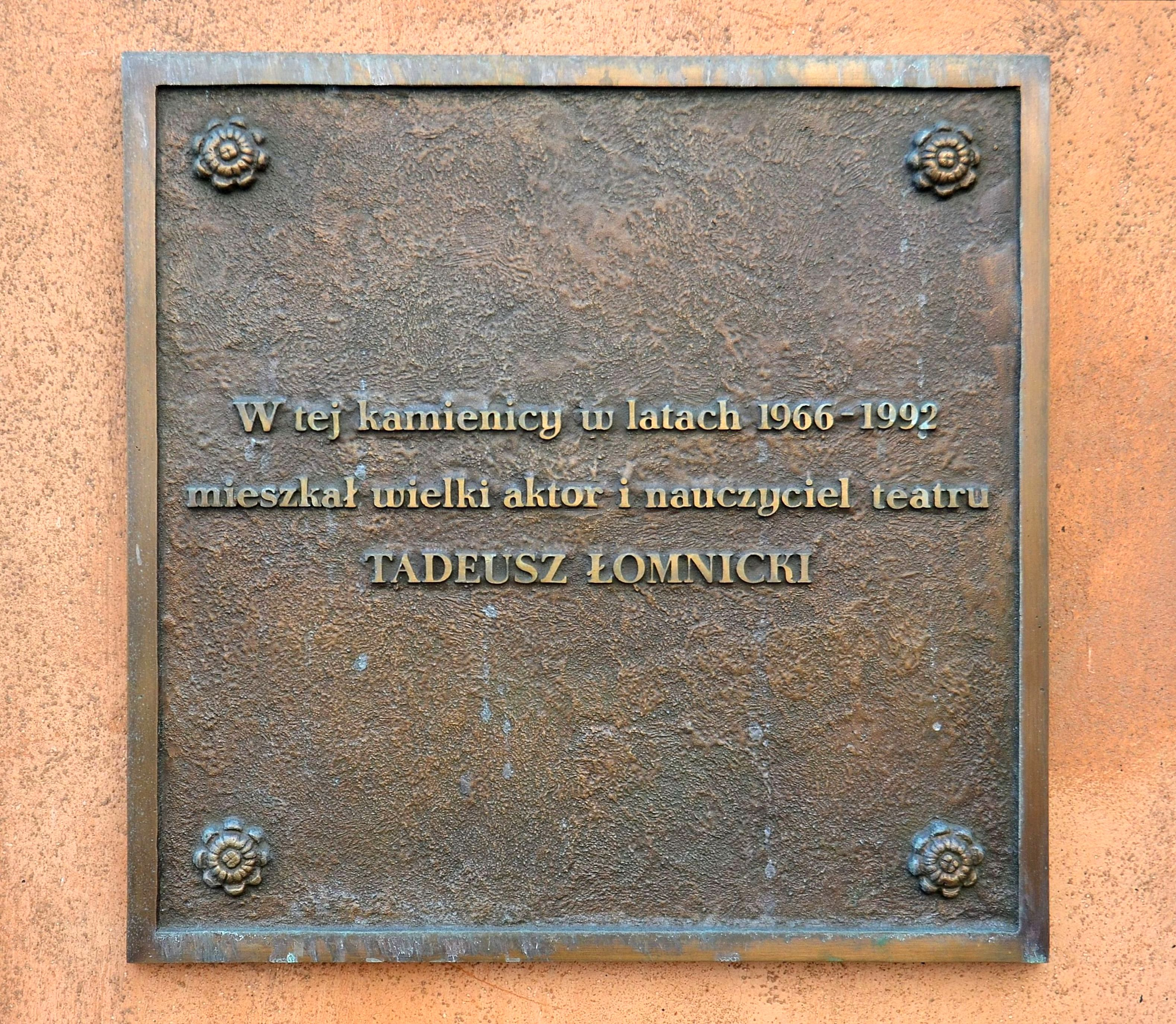 Plaque commemorating Tadeusz Łomnicki at 21/23 Piwna Street in Warsaw